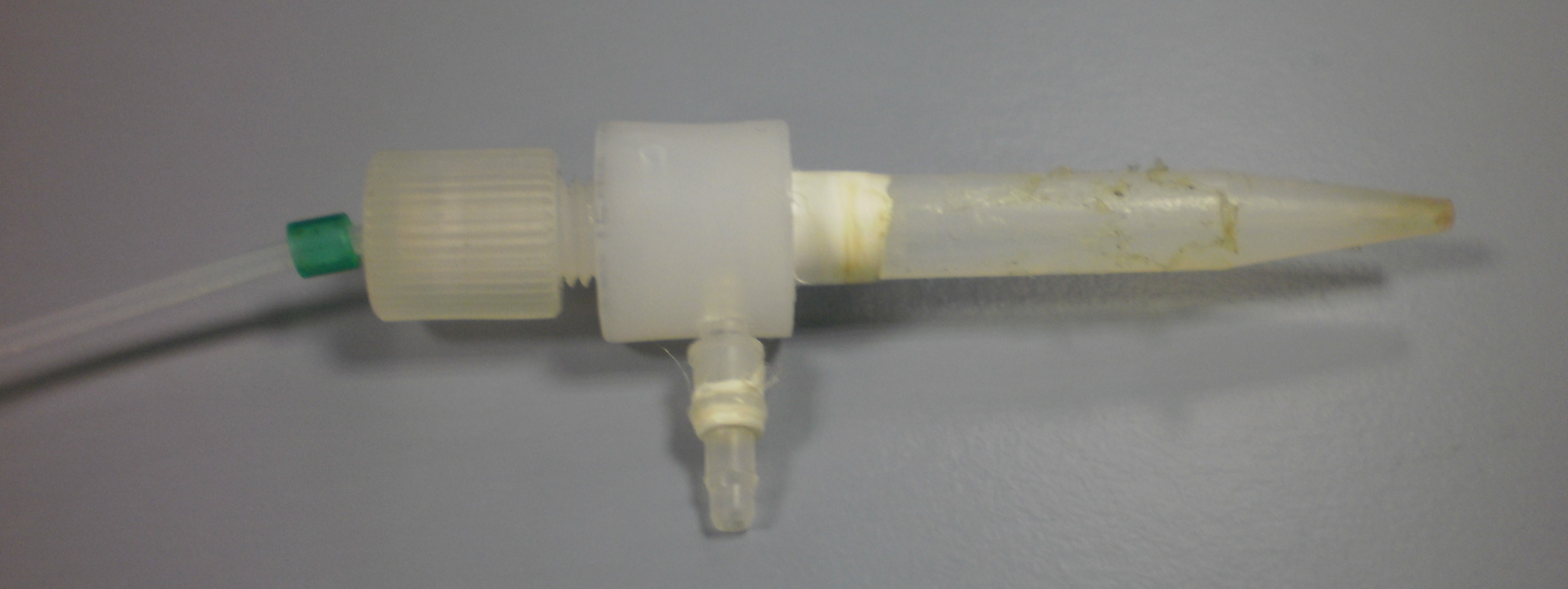 PFA nebulizer